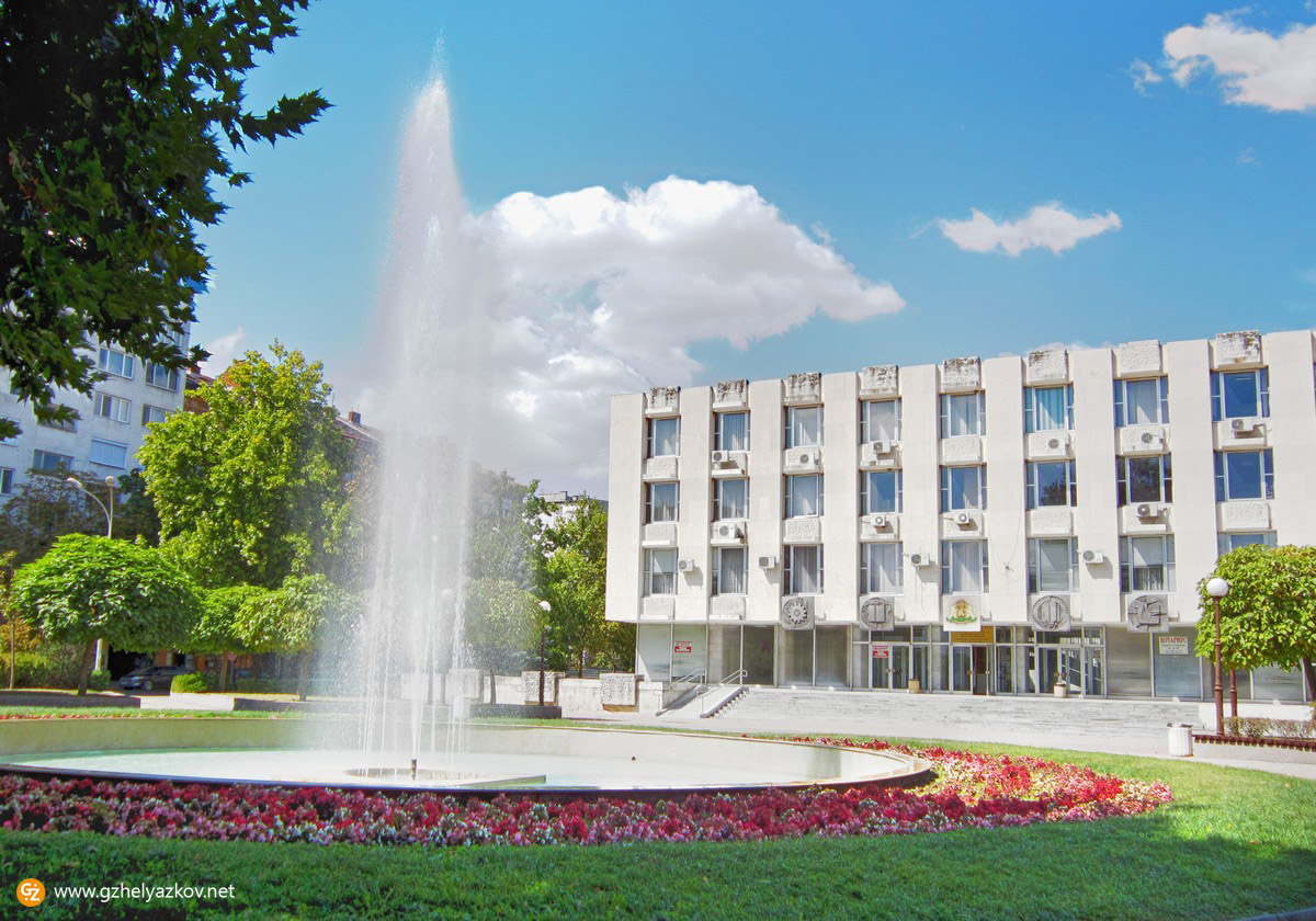 The courts of justice in Dimitrovgrad, Bulgaria.